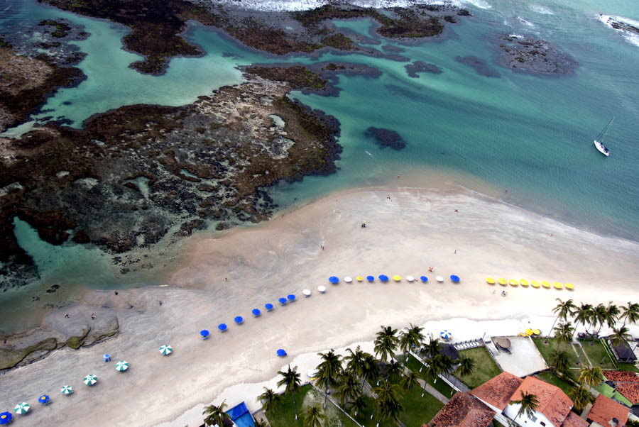 port de galinhas